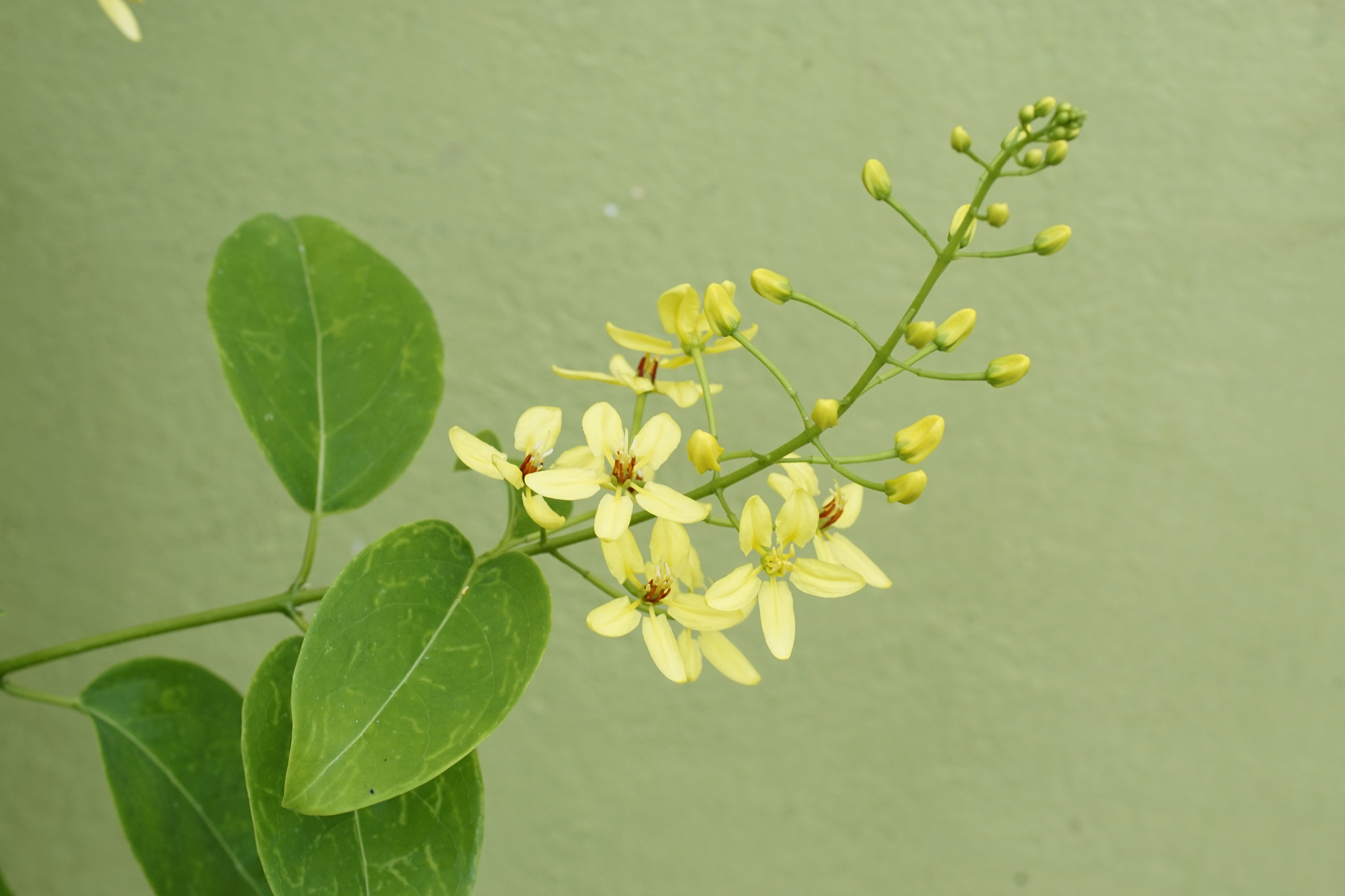 Flora of Kerala